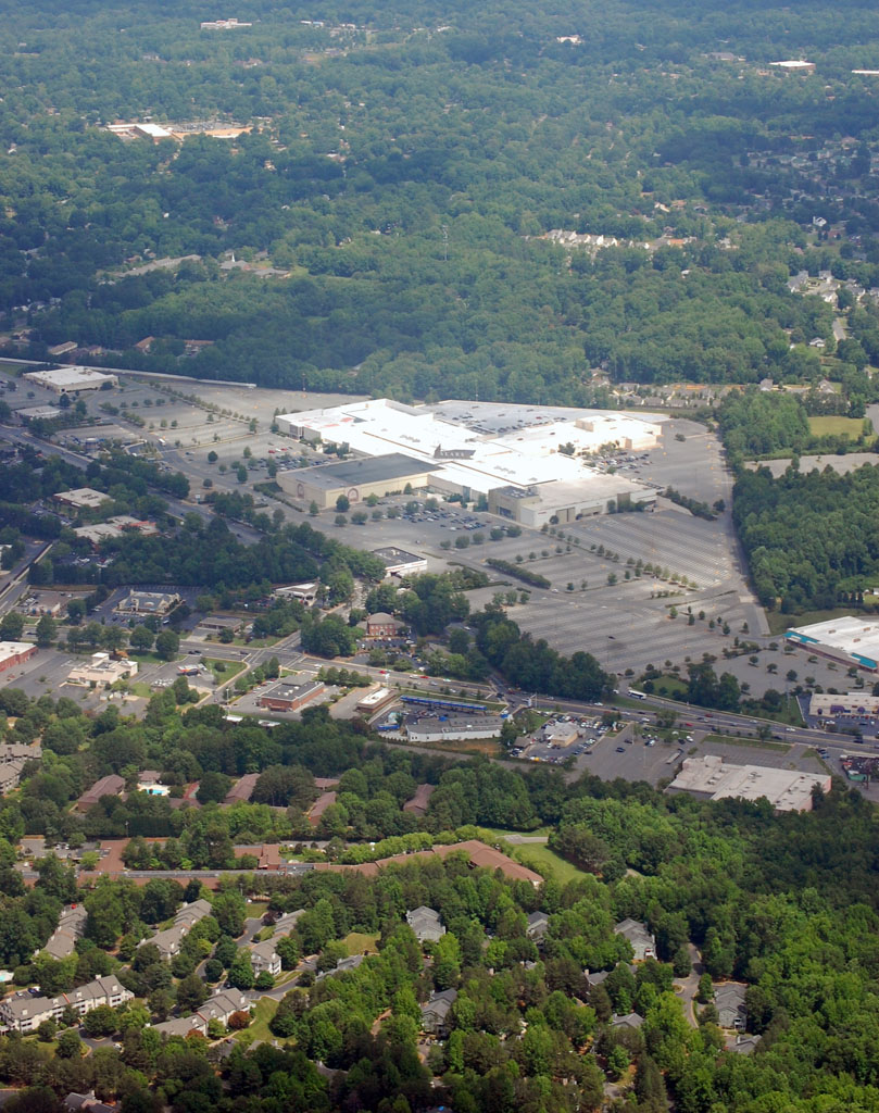 Aerial of the Eastland neighborhood, in Charlotte, North Carolina. Note that the mall has since been demolished.